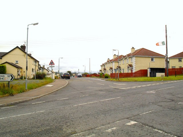 Kingsmills Road at Whitecross Kingsmills Road, sadly synonymous with the massacre, leads from Whitecross to the Bessbrook Road.